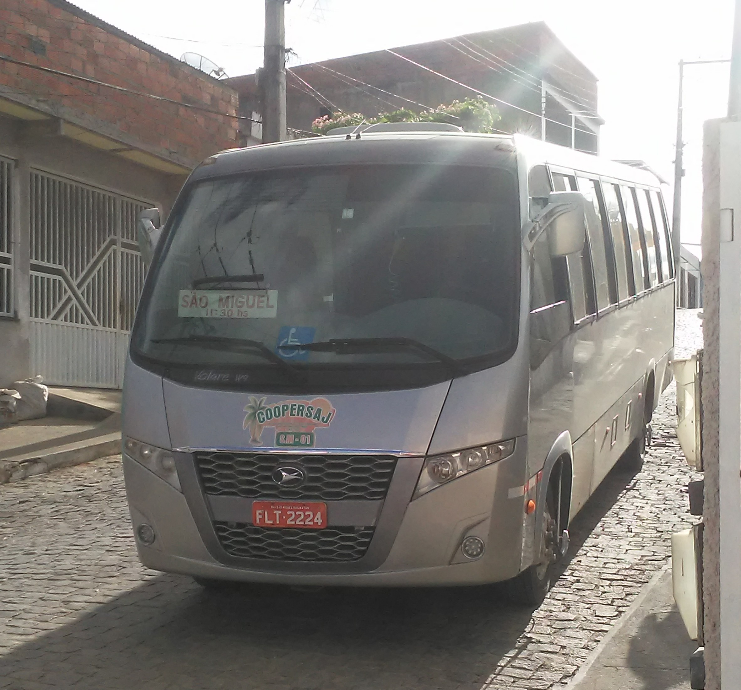 Volare W9 minibus model of the SM-01 prefix of Coopersaj in São Miguel das Matas, Bahia, Brazil.